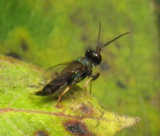 Chalcid wasp, Balcha indica, on milkweed. Churchville Nature Center, Bucks County, Pennsylvania, USA.